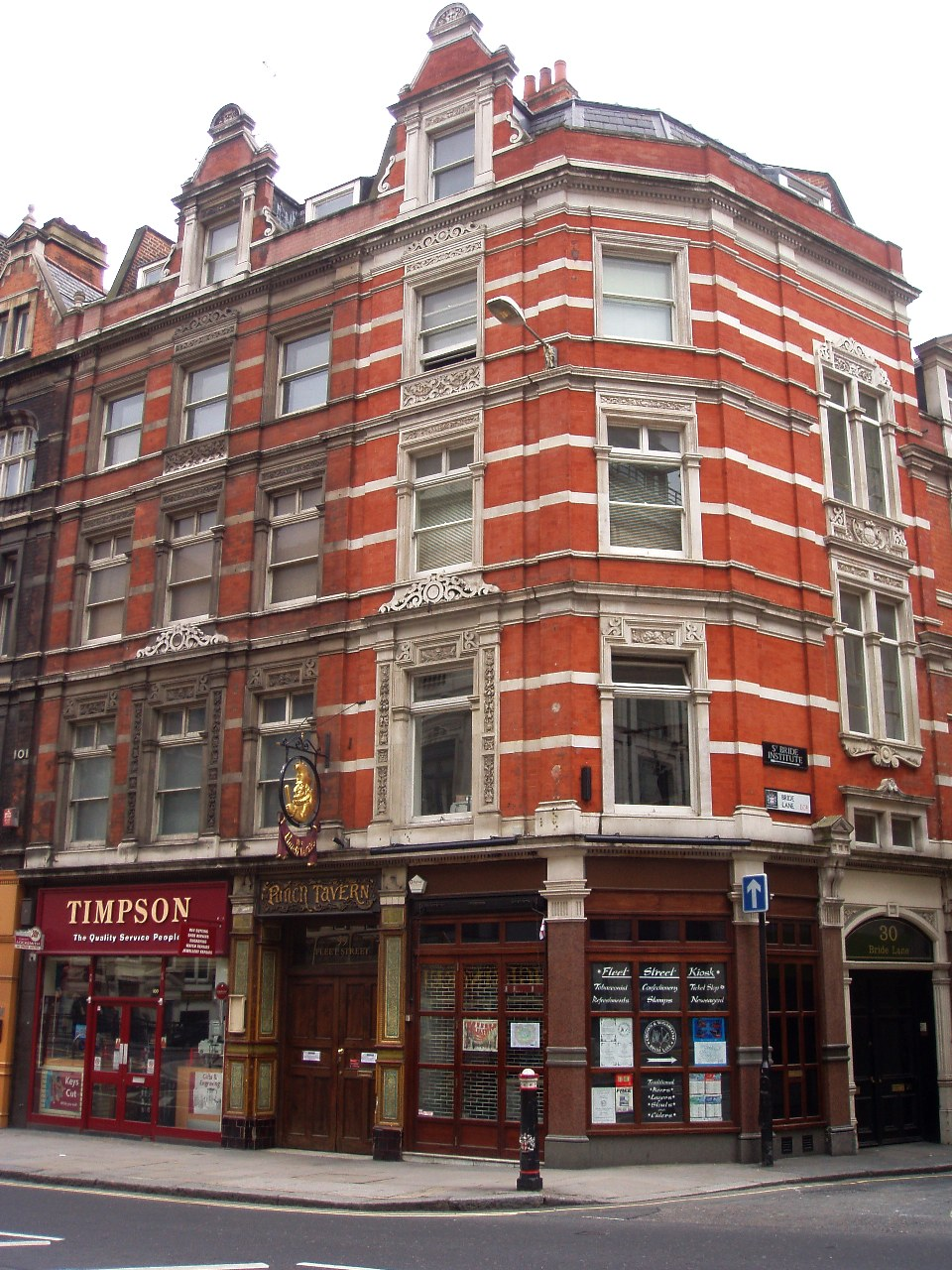 A nice enough pub on Fleet St. (Part of the pub split off and is now trading under the original name, just off to the right of this photo.) Address: 99 Fleet Street. Former Name(s): The Crown and Sugarloaf. Owner: Punch Taverns; Nicholson's (former); Charrington (former). Links: Randomness Guide to London Fancyapint Beer in the Evening Dead Pubs (history)